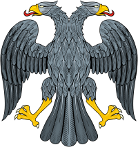 Coat of arms of Russia - Provisional Government, 1917